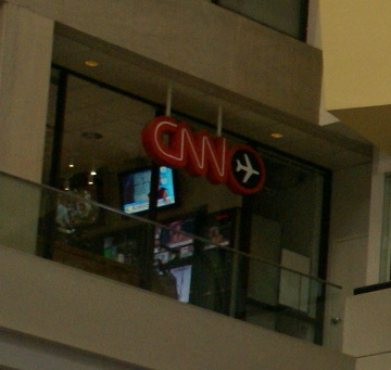 CNN Center in Atlanta, Georgia, USA